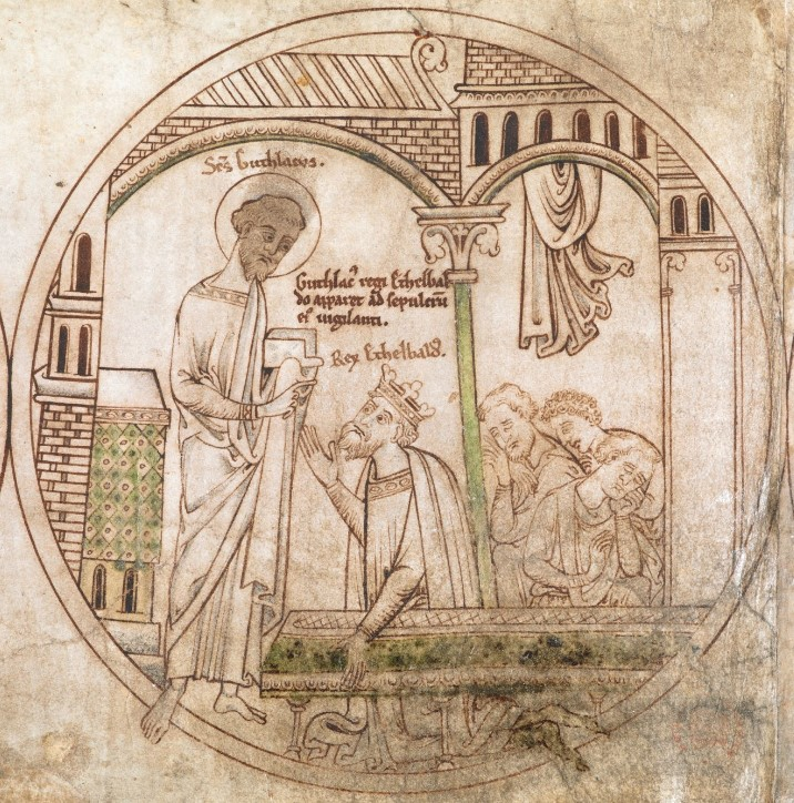 Roundel from the Guthlac Roll depicting Guthlac appearing to the Mercian king Æthelbald in a dream.